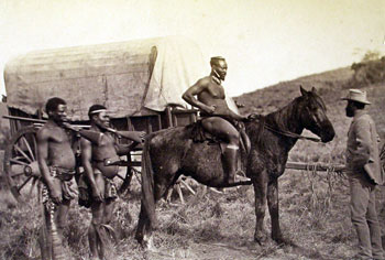 Dabulamanzi kaMpande, who commanded the Zulu forces at Rorke's Drift